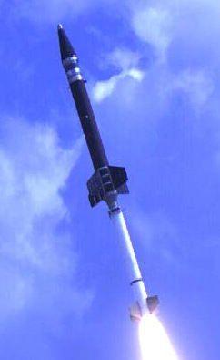 Launch of a Terrier Oriole sounding rocket